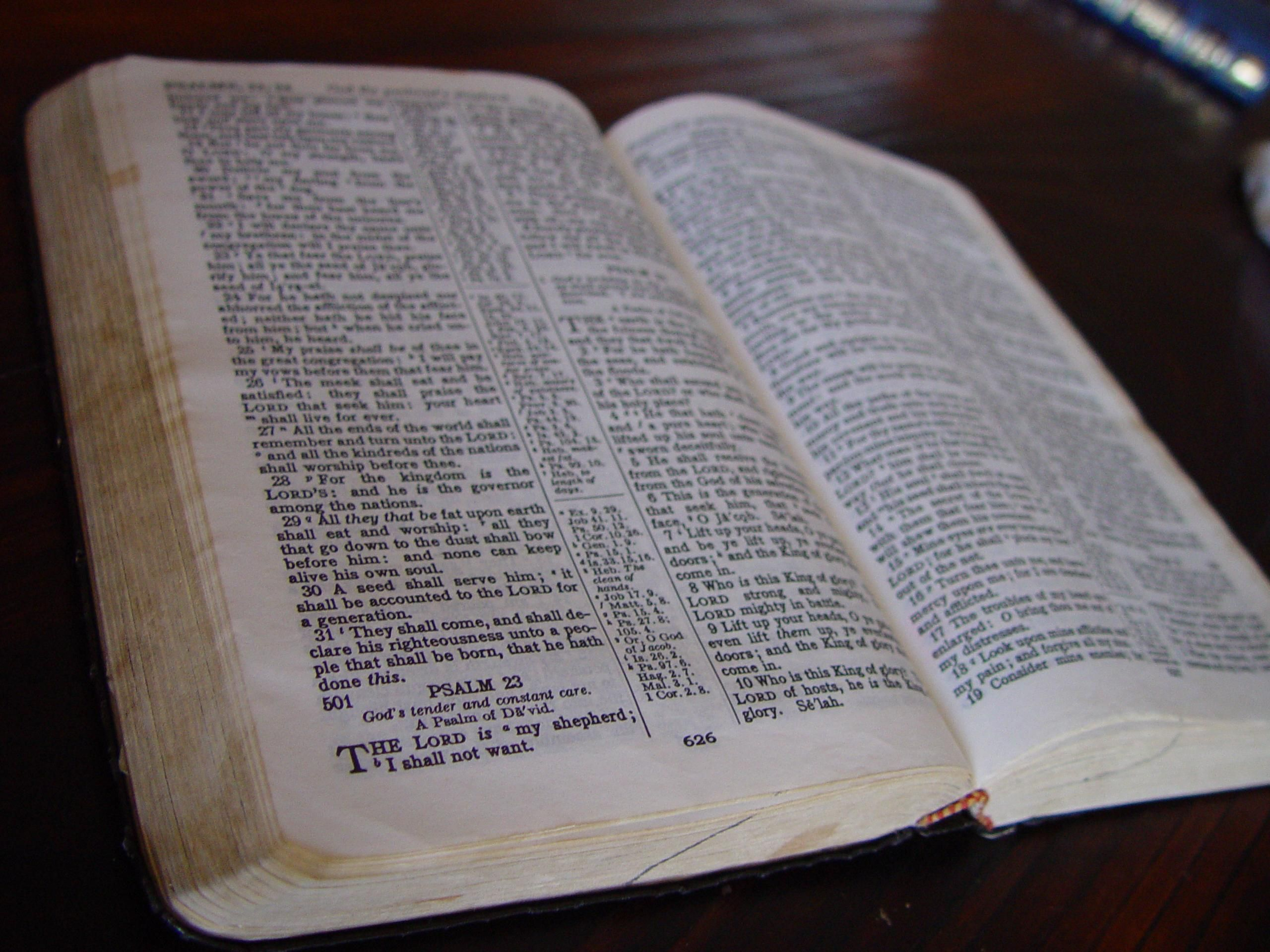 Image title: Holly bible book Image from Public domain images website